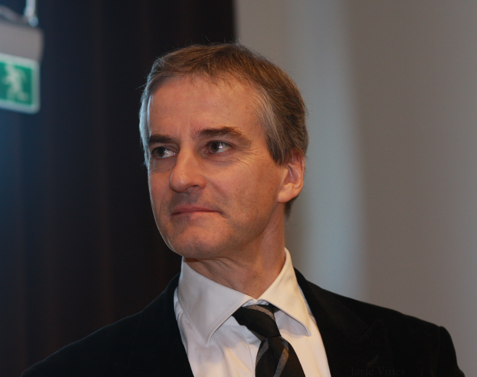 Jonas Gahr Støre Norwegian Minister of Foreign Affairs